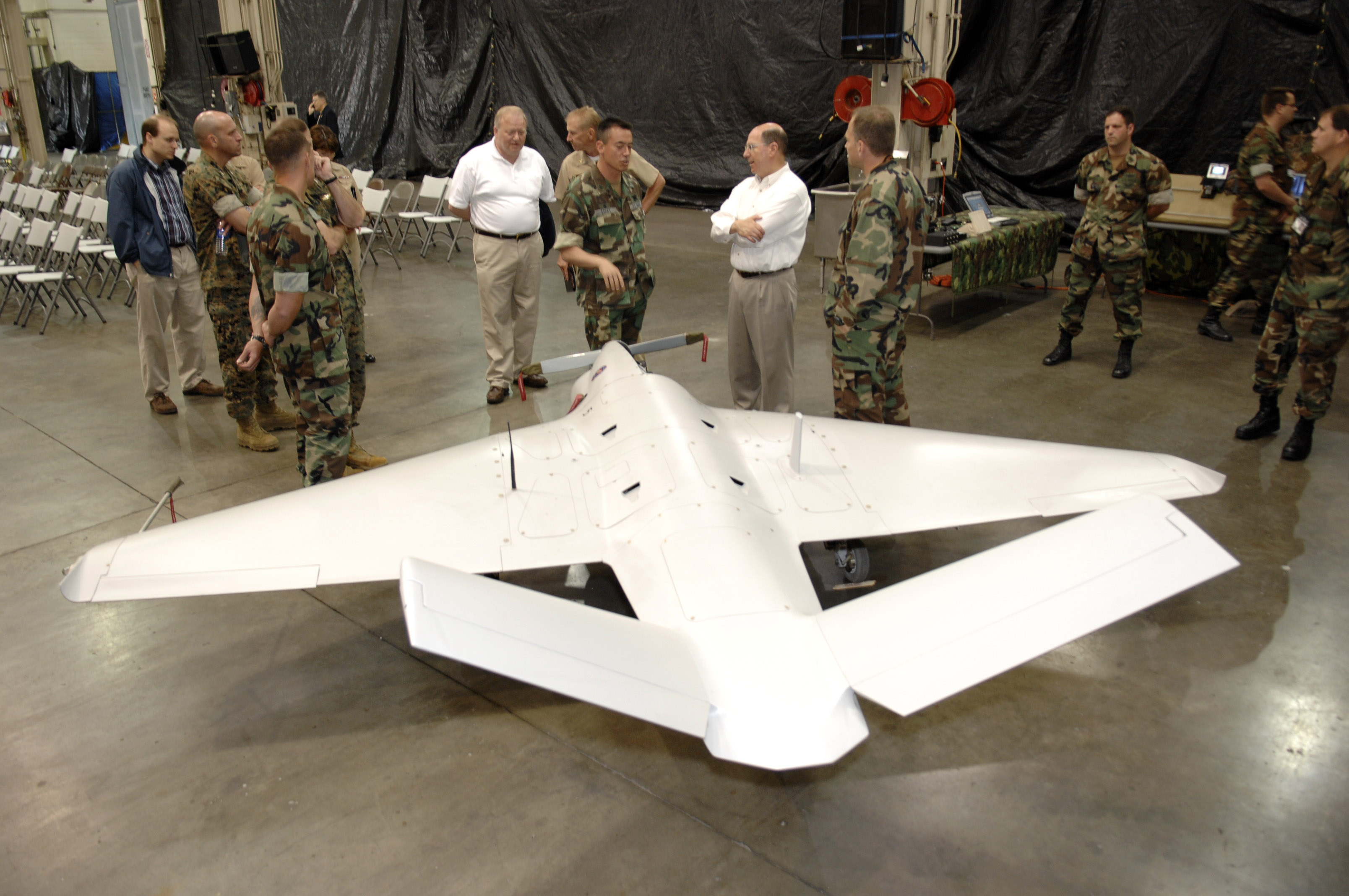 Secretary of the Navy (SECNAV) The Honorable Dr. Donald C. Winter (white shirt on the right) listens to a brief on the “Sentry HP” Unmanned Aerial Vehicle (UAV) while touring Naval Special Warfare Development Group. U.S. Navy